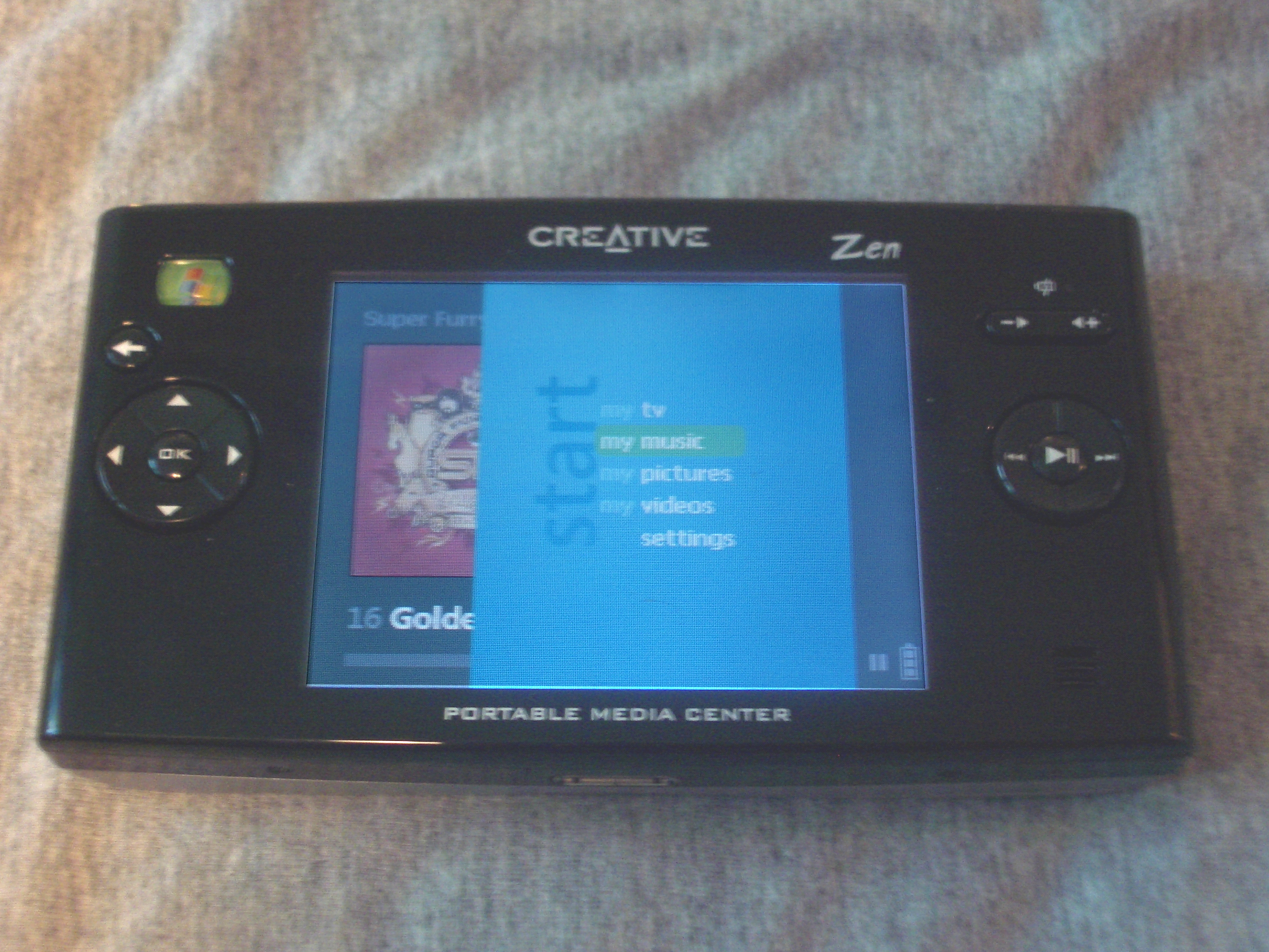 Creative_Zen_Portable_Media_Center.